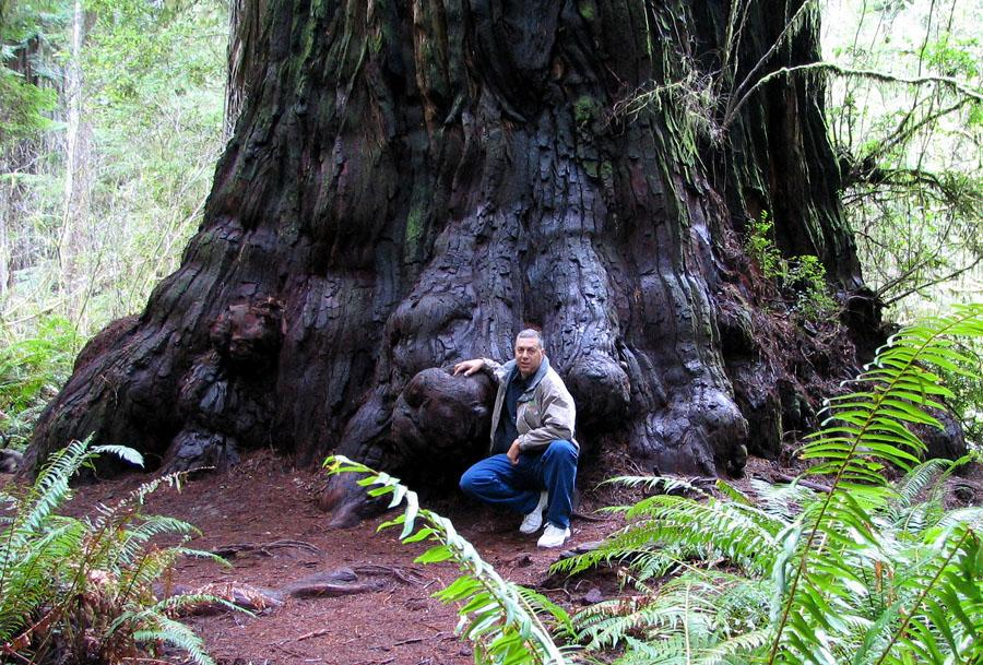 Simpson Reed Discovery Trail, Jedediah Smith Redwoods State Park, Northern California. Image shows a large coast redwood trunk, with arborist Mario Vaden, for size comparison.